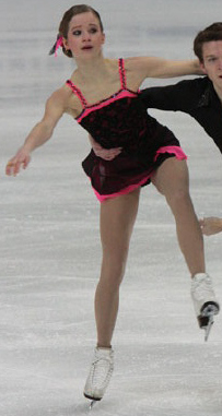 2009 European Figure Skating Championships - Erica Risseeuw and Robert Paxton